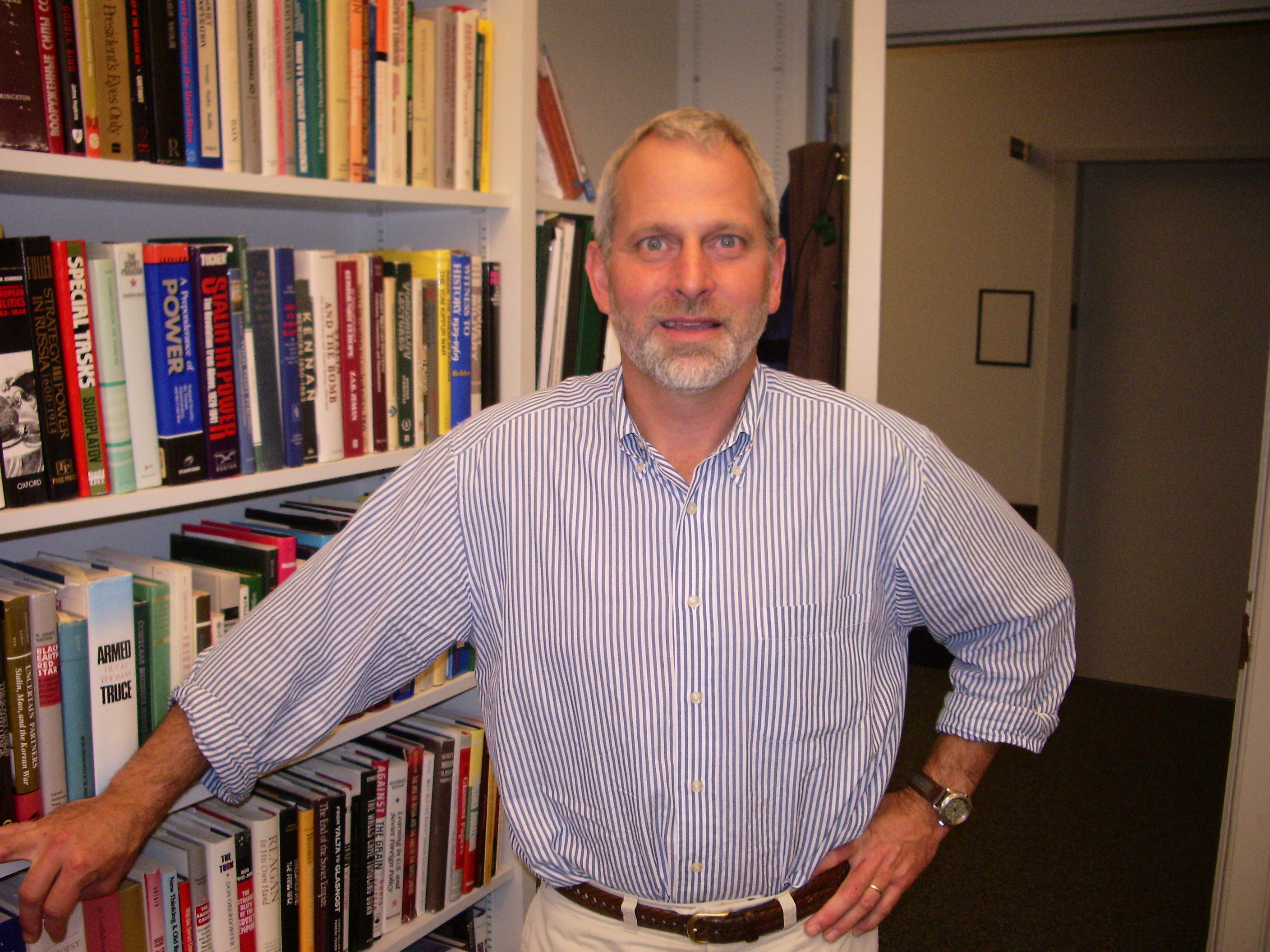 Photograph of William Wohlforth, currently a professor at Dartmouth College in Hanover, New Hampshire.